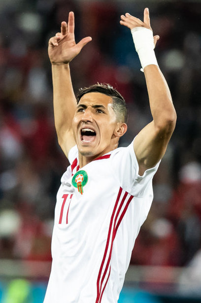 Spain-Morocco match, Group B, 2018 FIFA World Cup